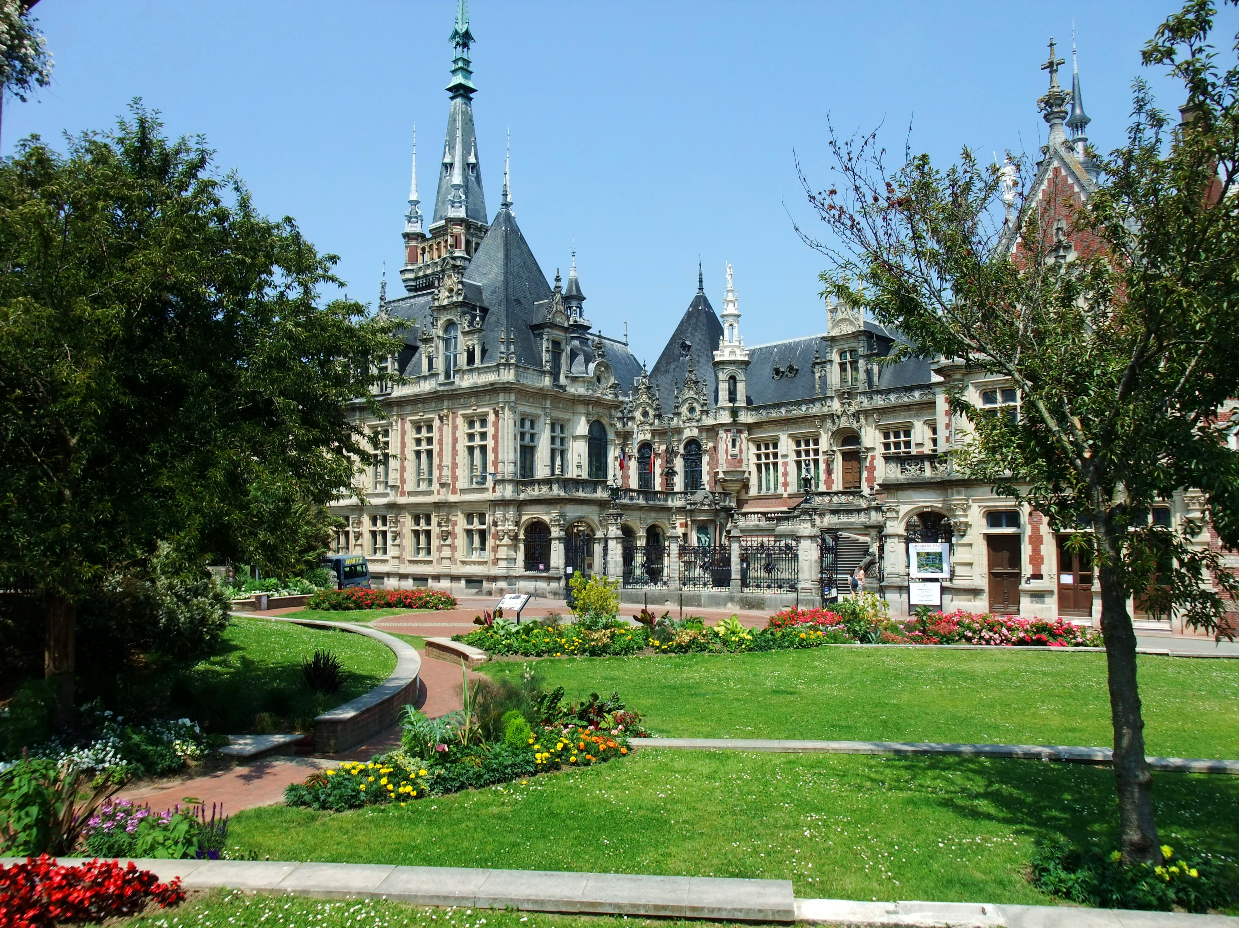 Fécamp, France: Palais Bénédictine